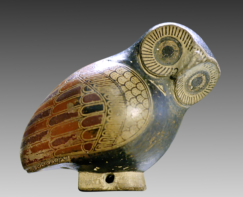 Owl-shaped protocorinthian aryballos, ca. 640 BC. Opening in the tail, hole in the basis to suspend by a lace. From Greece.